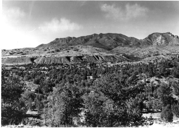 [Photo] 1939—Holt Mountain with Sheridan Mountain in the foreground. 1939—Holt Mountain with Sheridan Mountain in the foreground. This is a view of the Mogollon Range as seen from Highway 260 (later numbered 180). Photo by W. H. Shaffer FS #383788